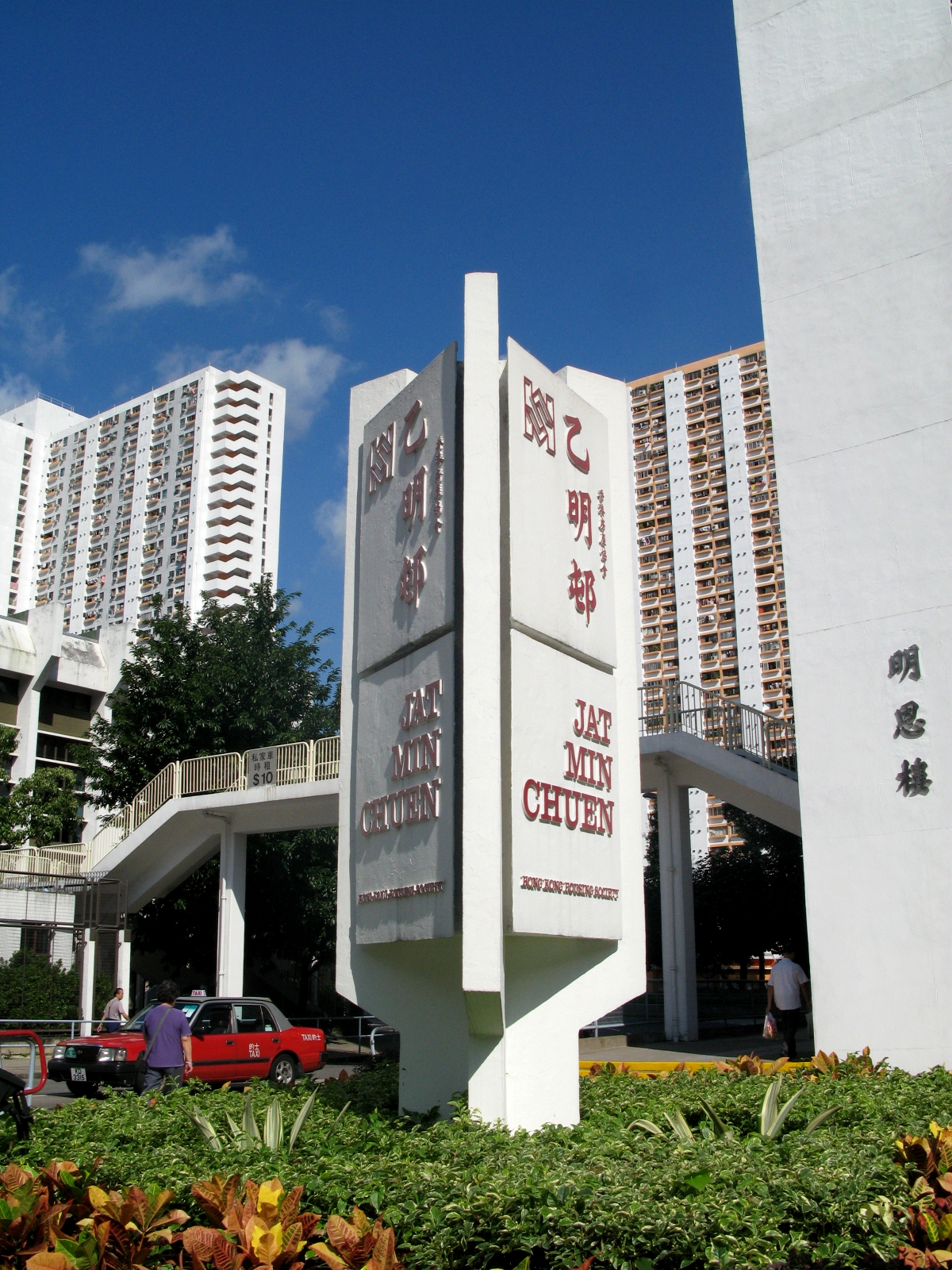 HK Shatin Jat Ming Chuen Sign